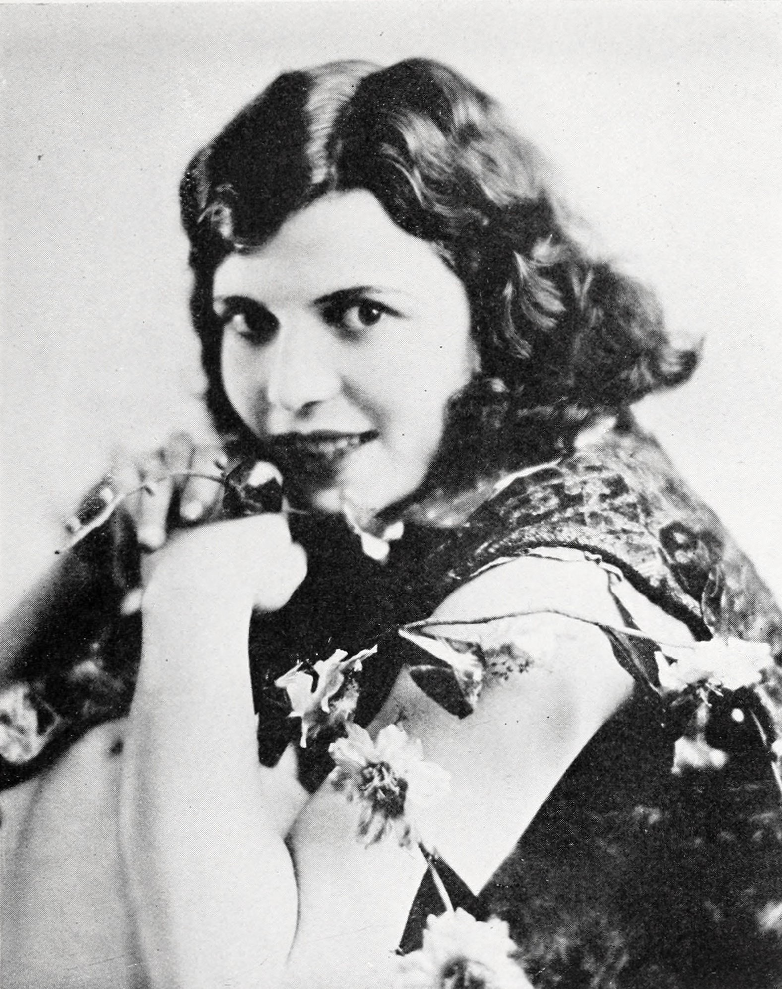 Publicity photo of Marie Mosquini from Who's Who on the Screen